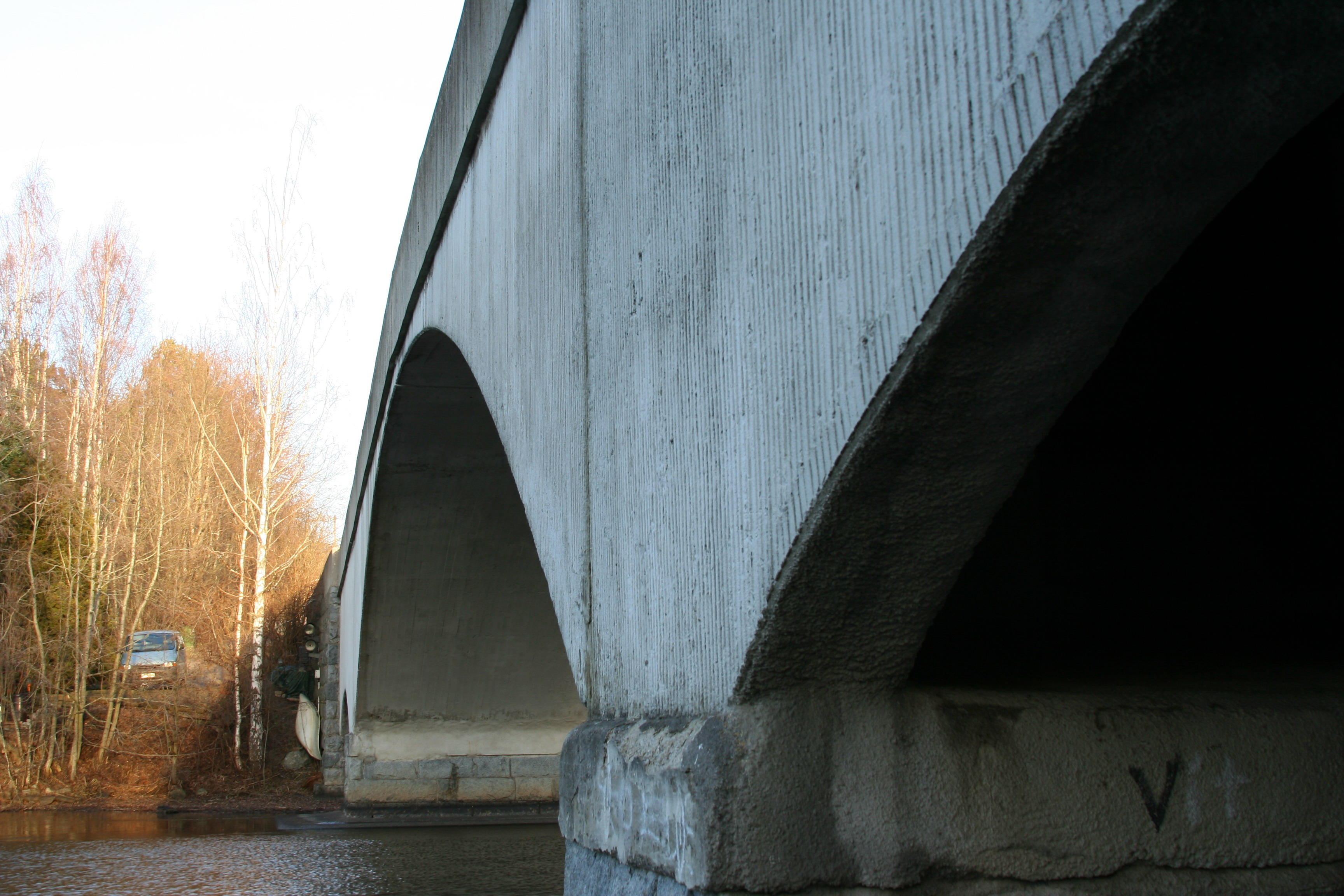 Mierola museum bridge, Mierola, Hattula, Finland. Completed in 1919. Side with grooves.